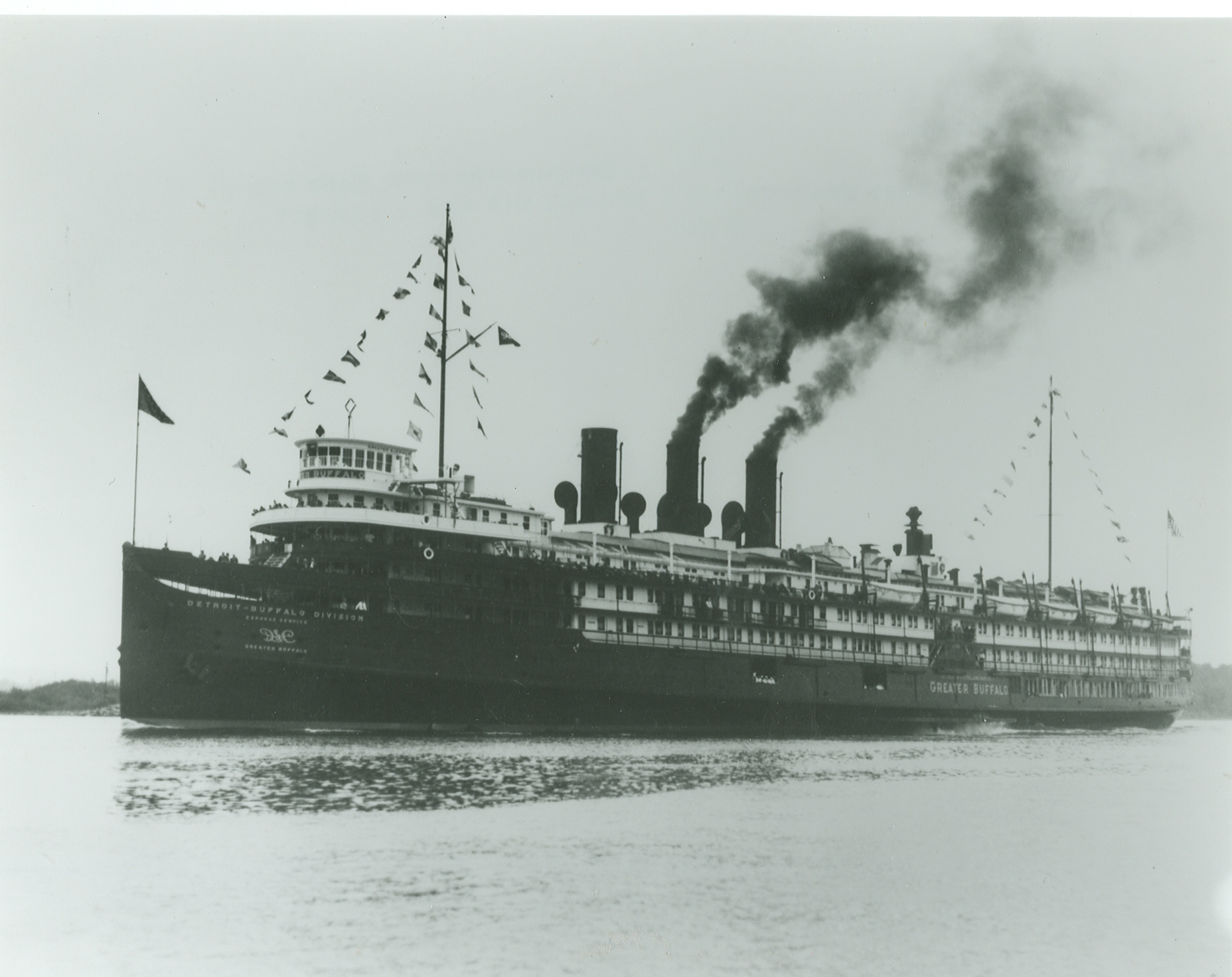 Steam ship Greater Buffalo prior to its conversion into the training carrier USS Sable (IX-81)